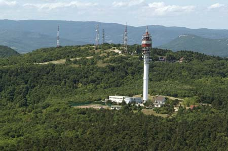 Hármashatárhegy, Budapest, Hungary, aerial photography